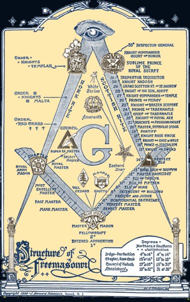 Freemason Structure in diagram form